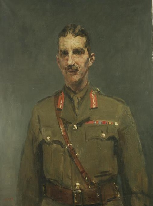 Brigadier-general A R H Hutchison, CB, CMG, DSO, Assistant Adjutant- General, RM : 1918 image: A half length portrait of Hutchison, who is wearing full uniform .